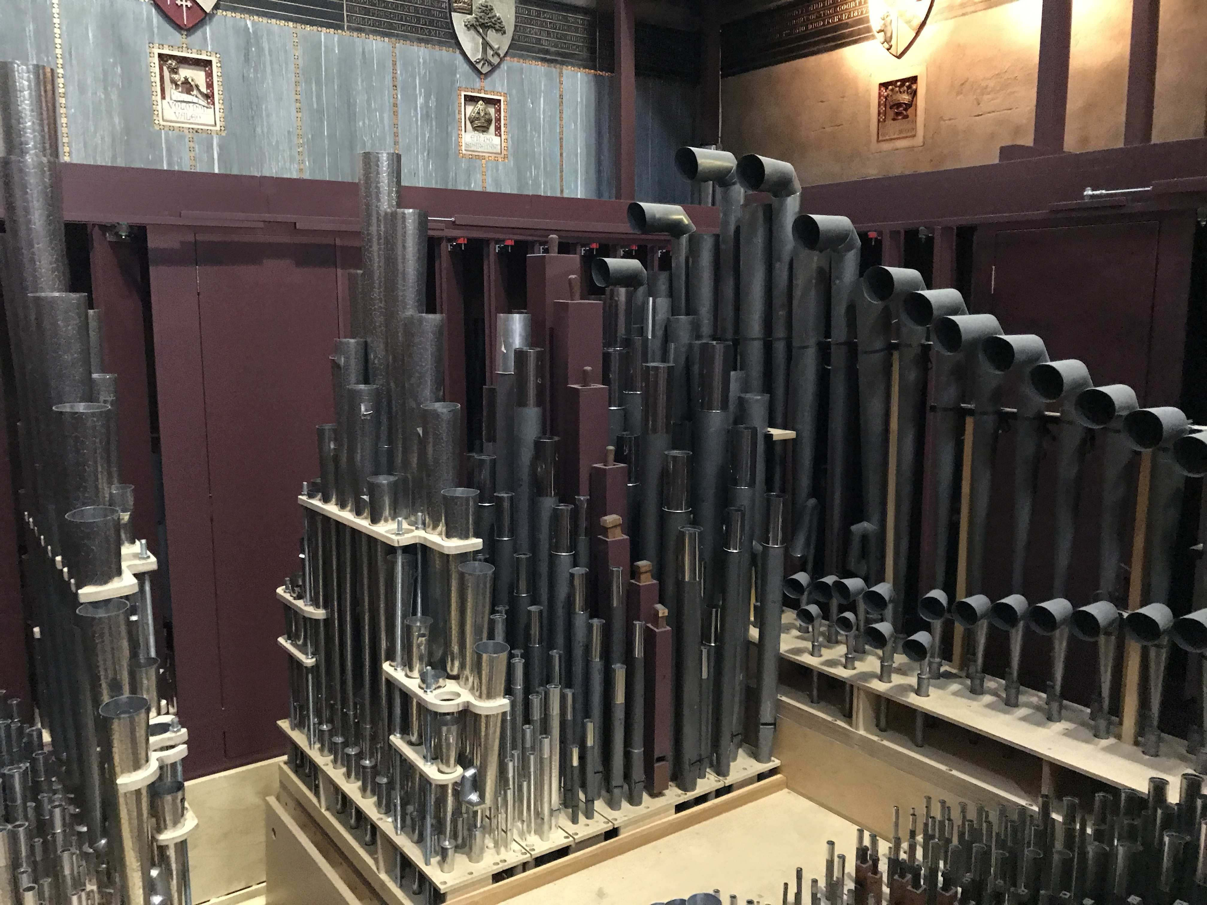 Organ Pipes, Saint Fin Barre's Cathedral, Cork